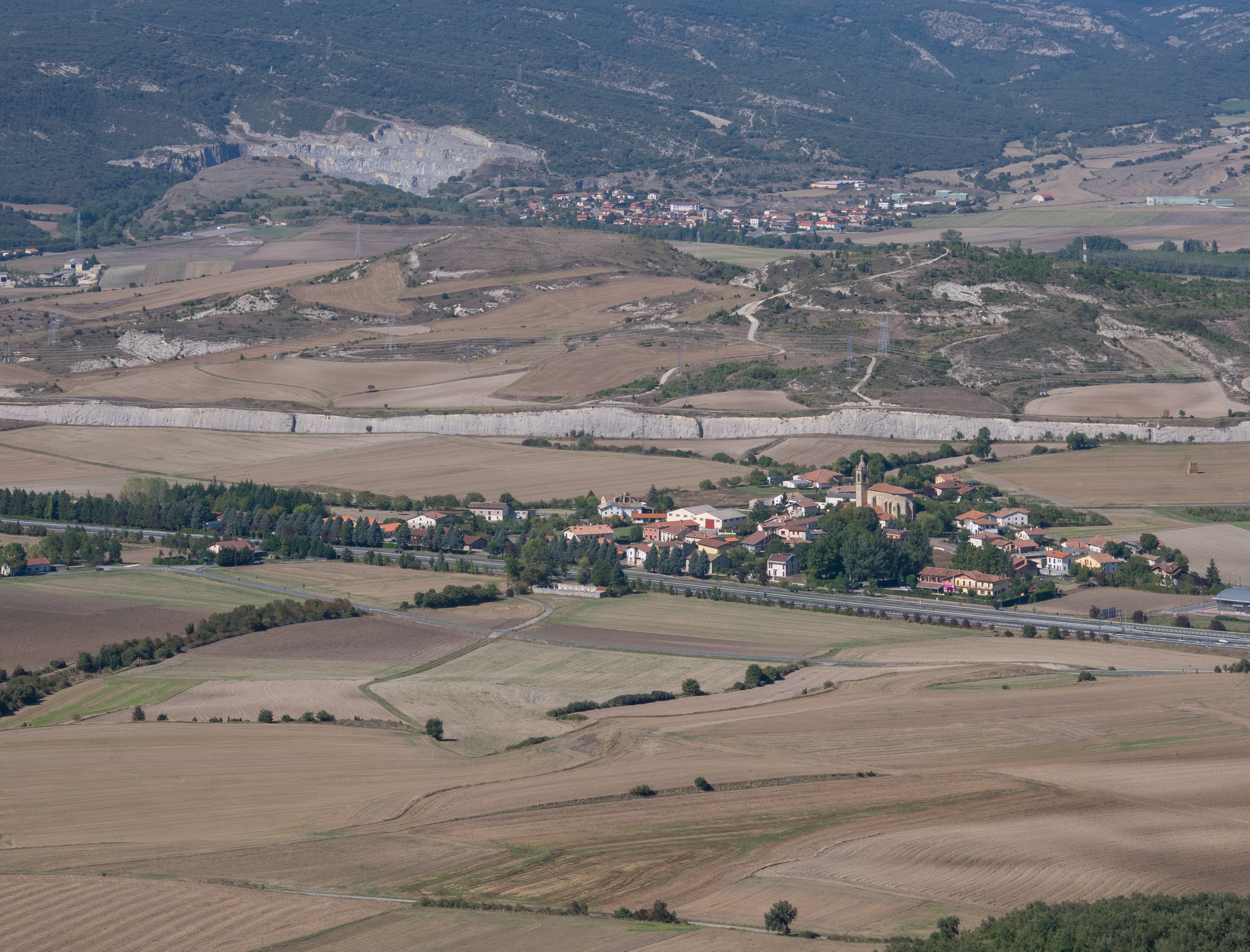 View of Aríñez, from Eskibel mountain. Autovía N-102. Álava, Basque Country, Spain